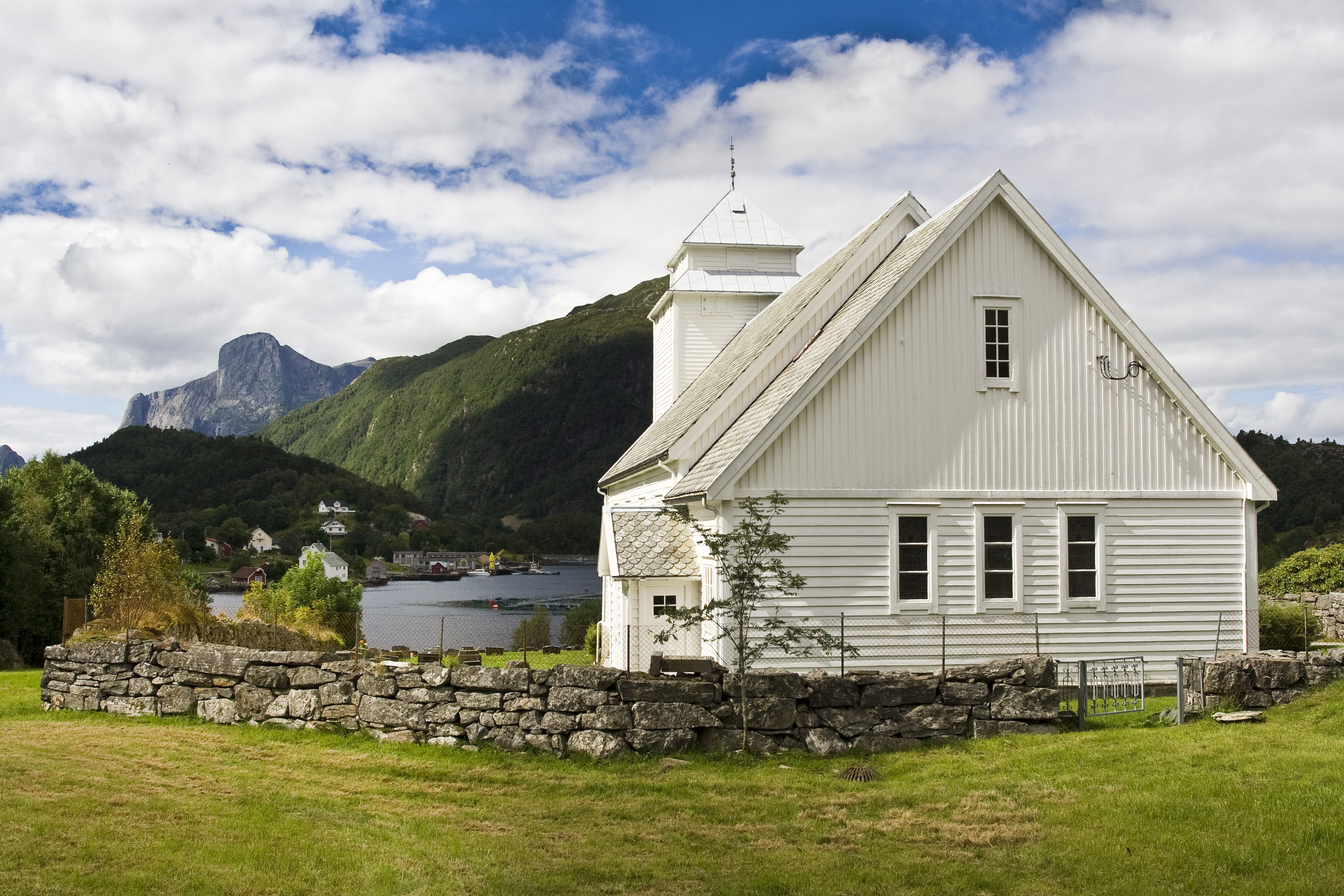 Rugsund Church in Nordfjord, Norway. The mountain visible furthest away is Hornelen.